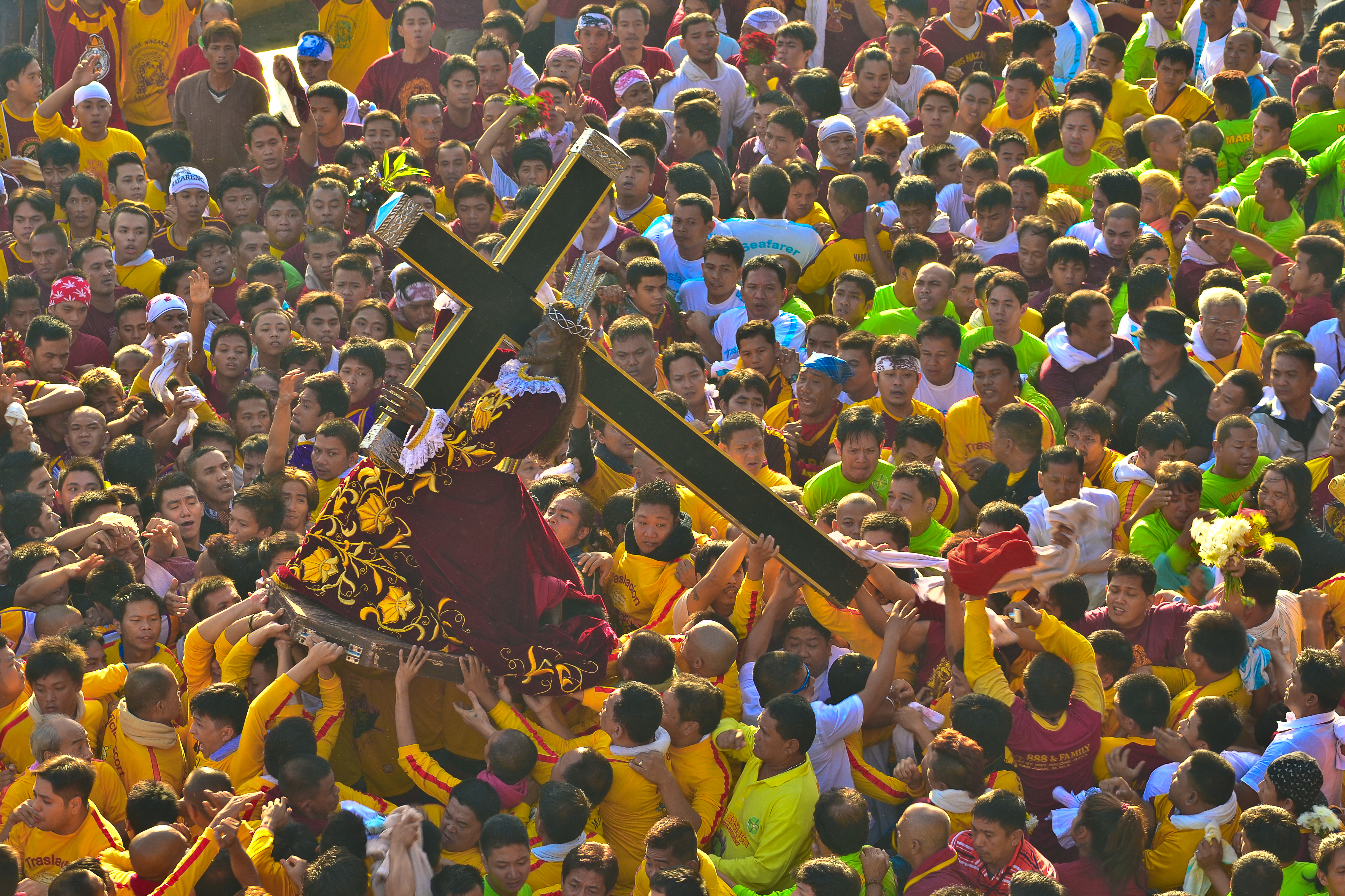 The Feast of Black Nazarene is a yearly celebration held every 9th of January. The barefooted devotees joined the procession from Quirino Grandstand to the Quiapo Church. Thousands of devotees flocks yearly to celebrate the occasion as a sign of their thanksgiving rites for all the blessings they received.